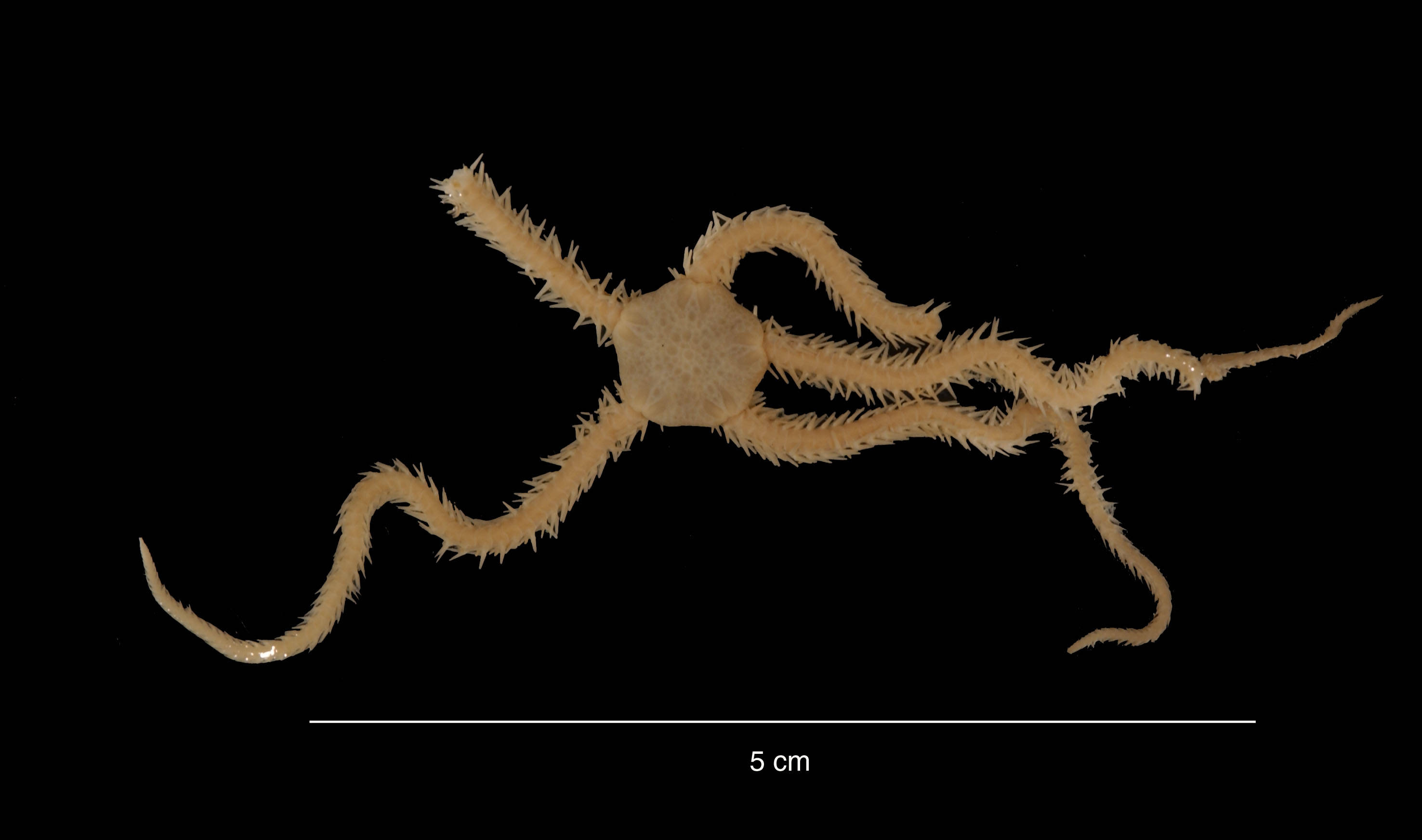 PRESERVED_SPECIMEN; Preparations: Alcohol (Ethanol); Amphiura belgicae Koehler, 1900; Individual count: 6; Type status: (no data); Identified by: Smirnov, Igor S.; Event date: 19760222T00:00:00Z; Additional description: Amphiura belgicae Koehler (USNM E52089) dorsal view Scale : 5 cm